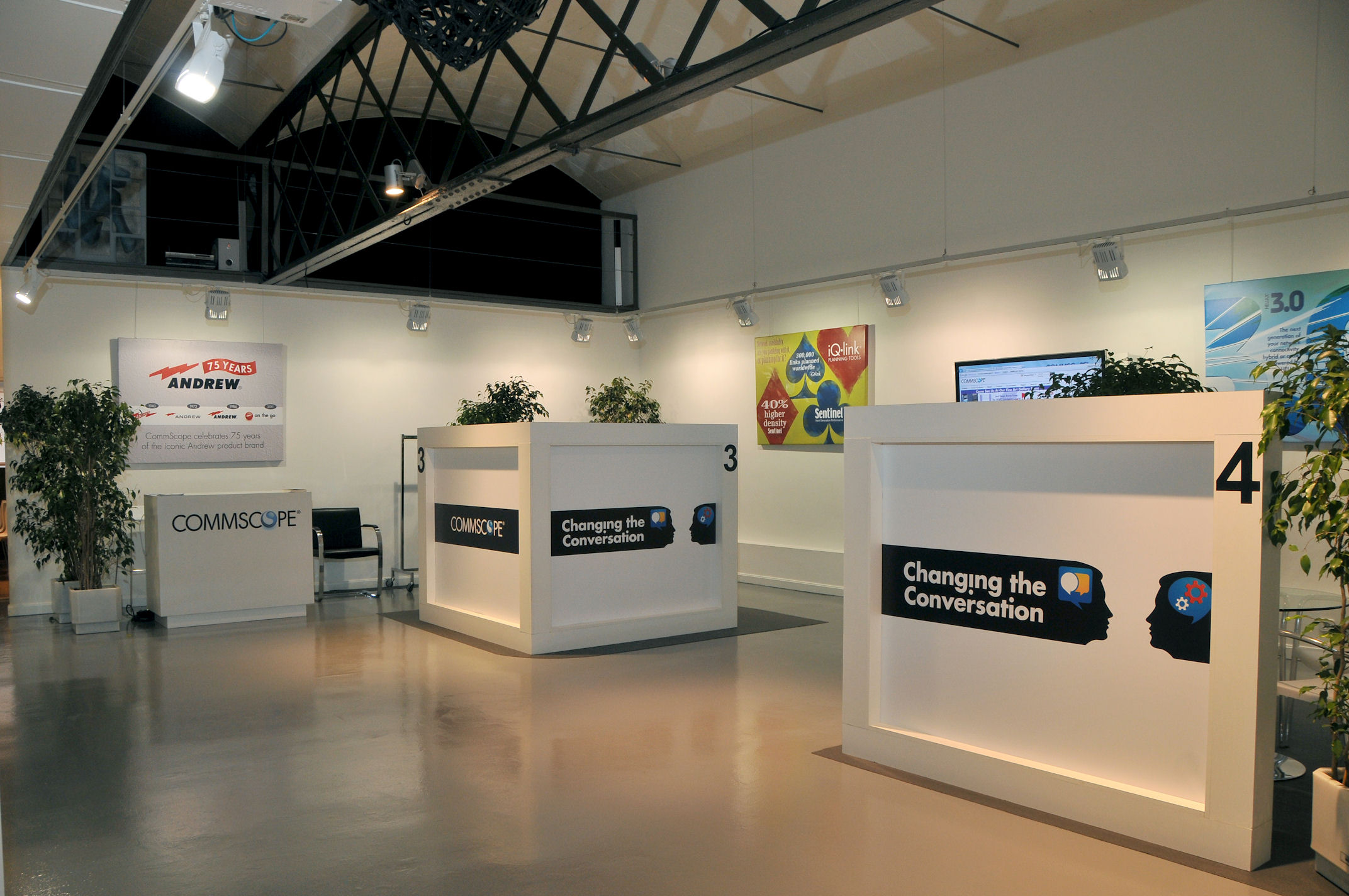 CommScope social at Mobile World Congress 2012 in Barcelona, the world’s largest gathering of the telecom industry.